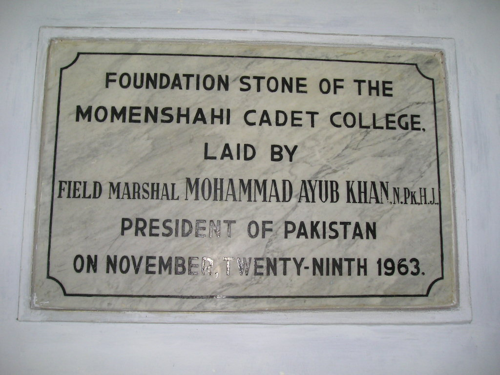 Inscription:"Foundation stone of the Momenshahi Cadet College. Laid by Field Marshall Mohammad Ayub Khan,N.Pk.,H.J., President of Pakistan on November 29, 1963."